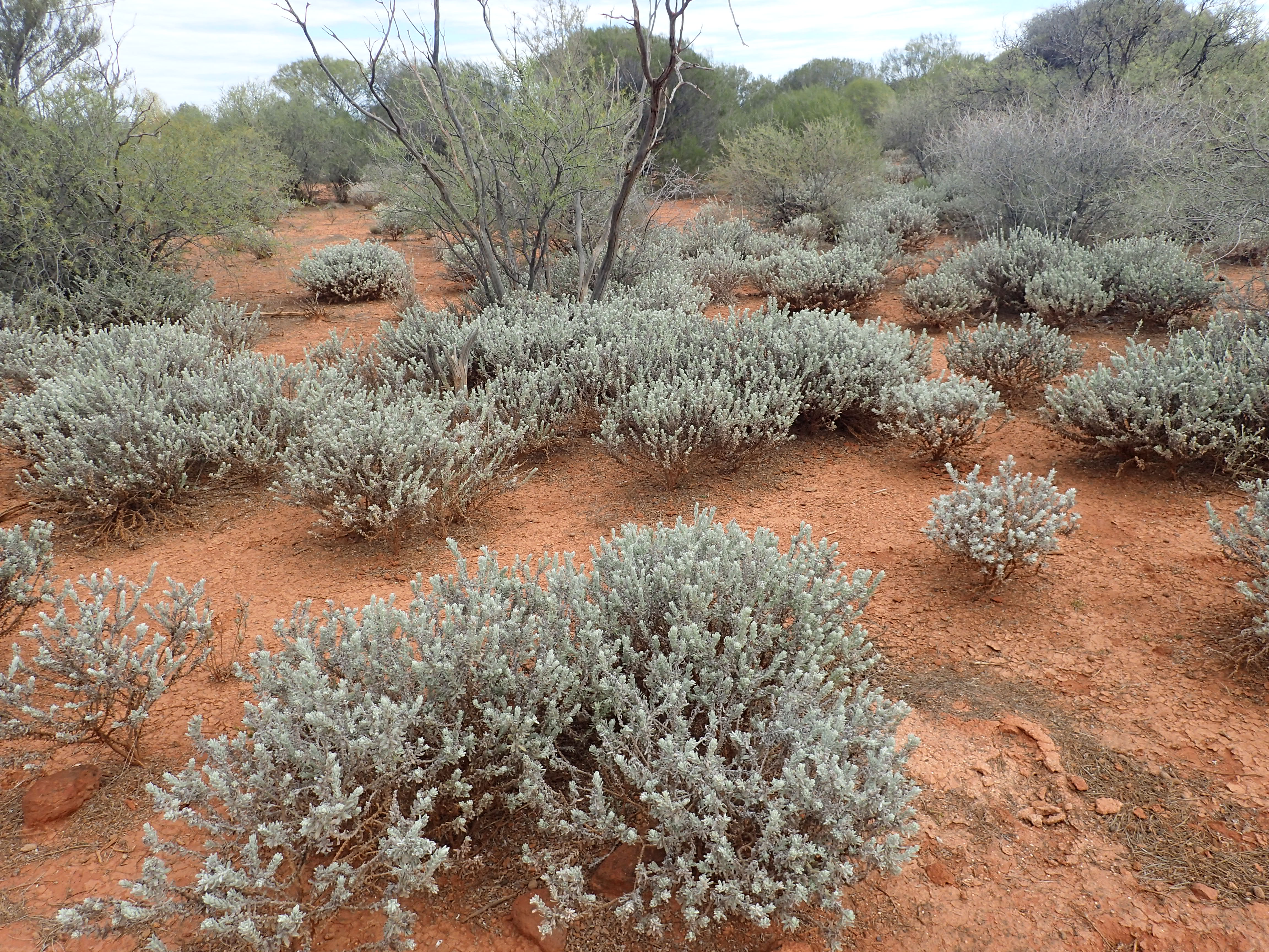 Eremophila hygrophana growing 27km west of Wiluna